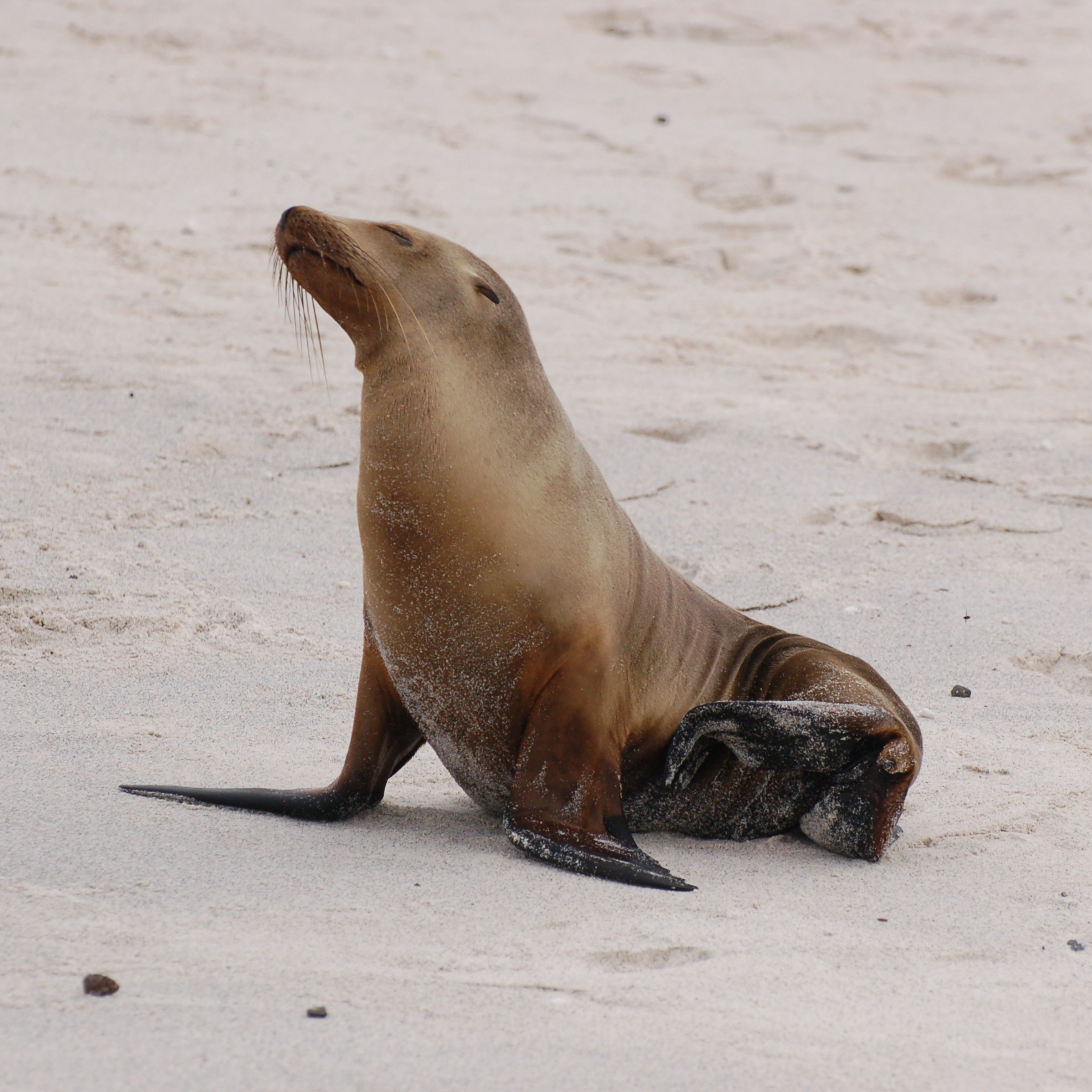 Galápagos Sea Lion (Zalophus wollebaeki)